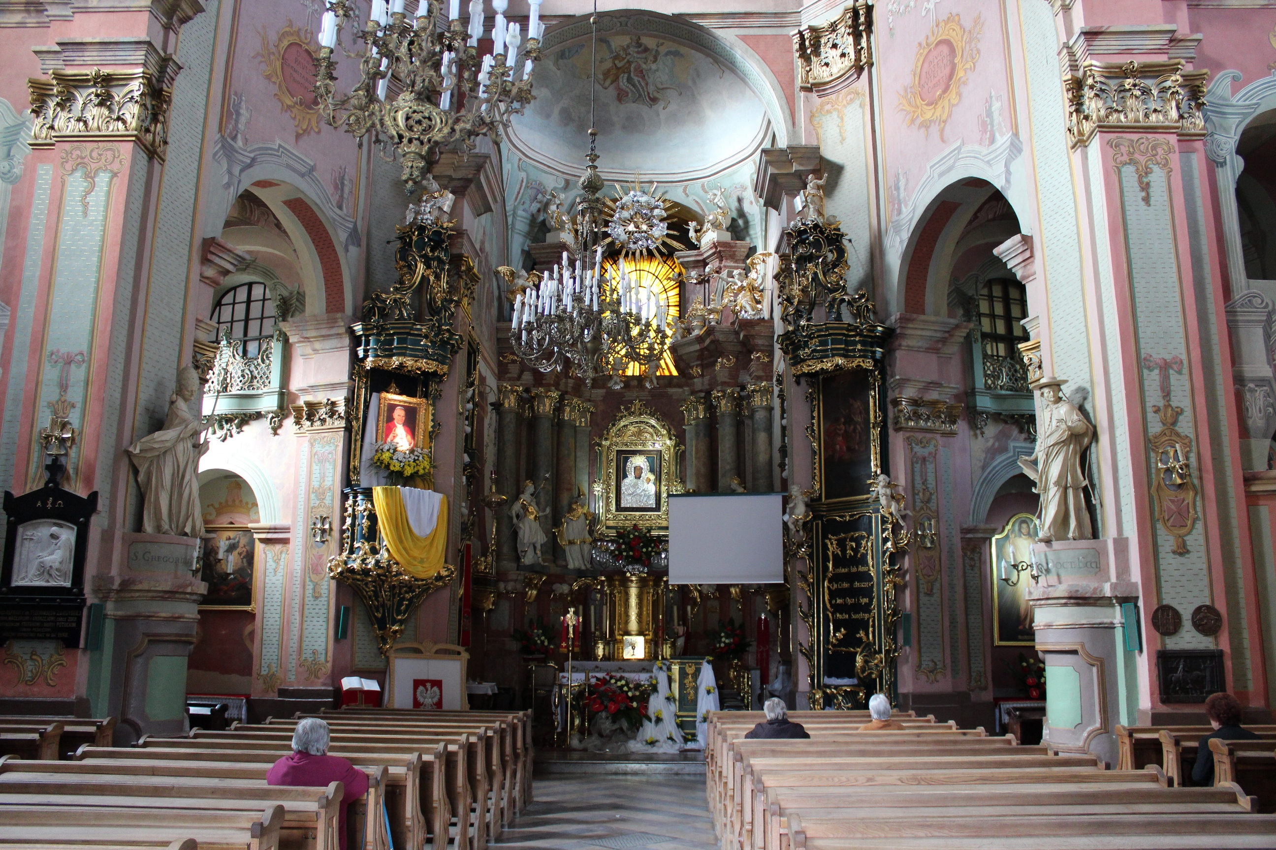 Saint Louis church in Włodawa